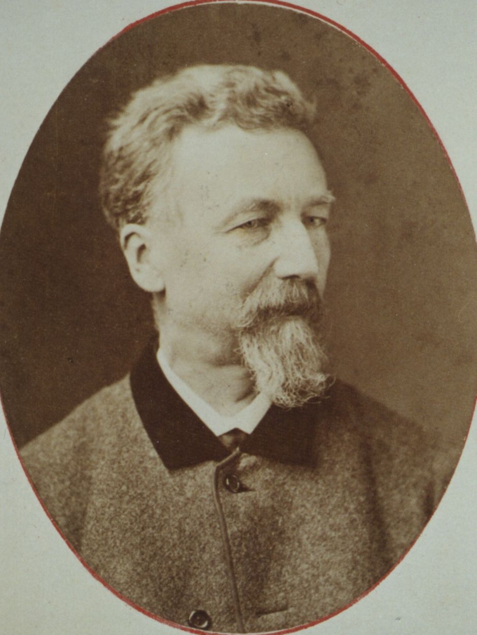 Swiss writer Alfred Hartmann (1814-1897). Photo taken in 1857 by Christoph Rust (1823-1896). Scan by User:Gestumblindi.